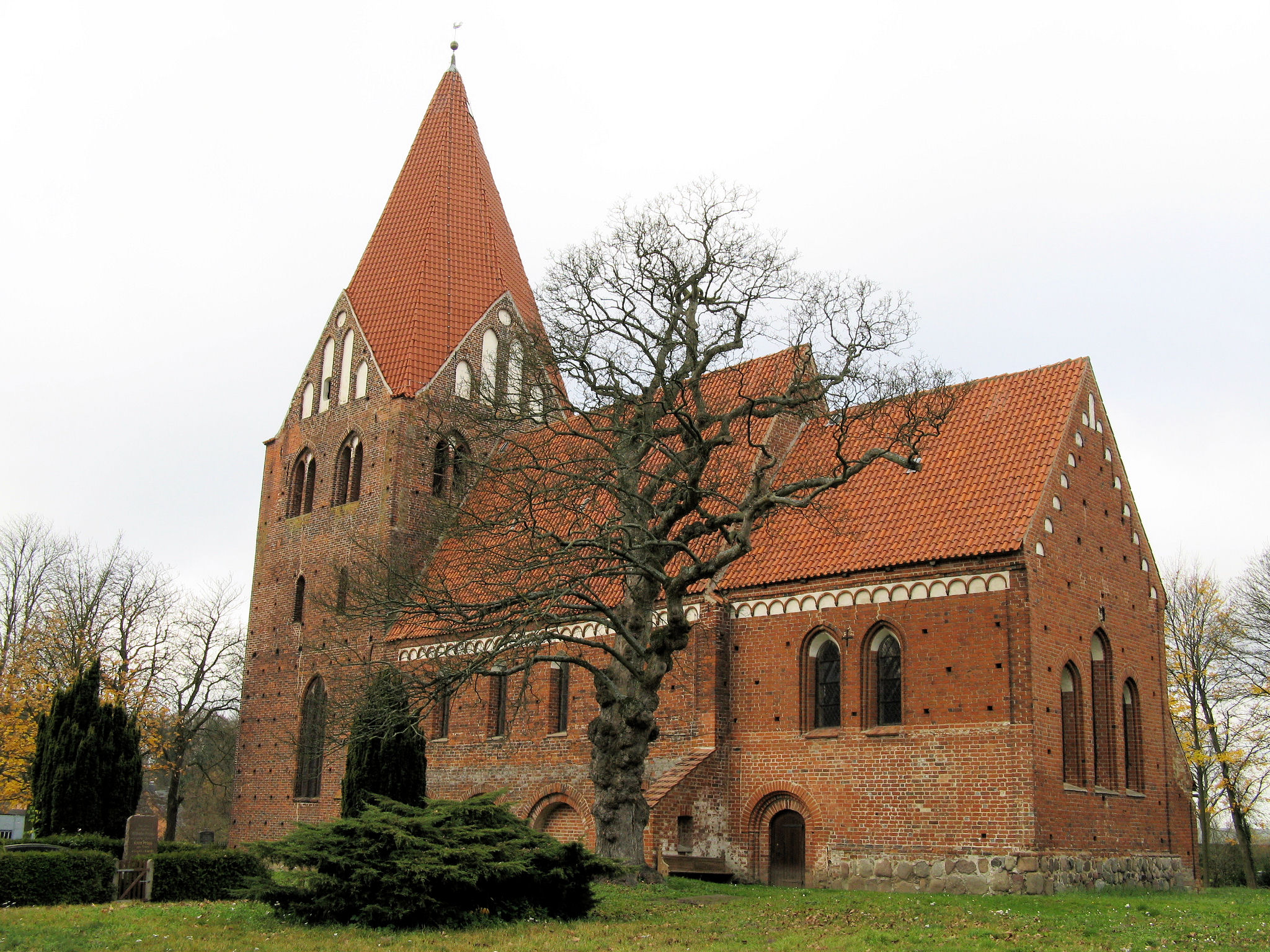 Church in Neuburg, Mecklenburg-Vorpommern, Germany